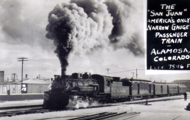 Postcard photo of the San Juan Express, taken possibly in 1949. The San Juan Express was a narrow gauge passenger train operated by the Denver and Rio Grande Western Railroad between 1937 and 1951. The route was between Alamosa and Durango, Colorado. When it was in operation, it was the only narrow-gauge passenger train left in the United States that ran on a regular schedule.